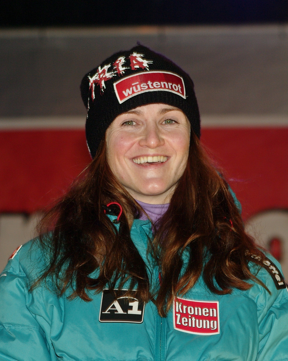 Austrian alpine skier Elisabeth Görgl at the bib draw for the Downhill in Altenmarkt-Zauchensee (Austria) on 8 January 2011.